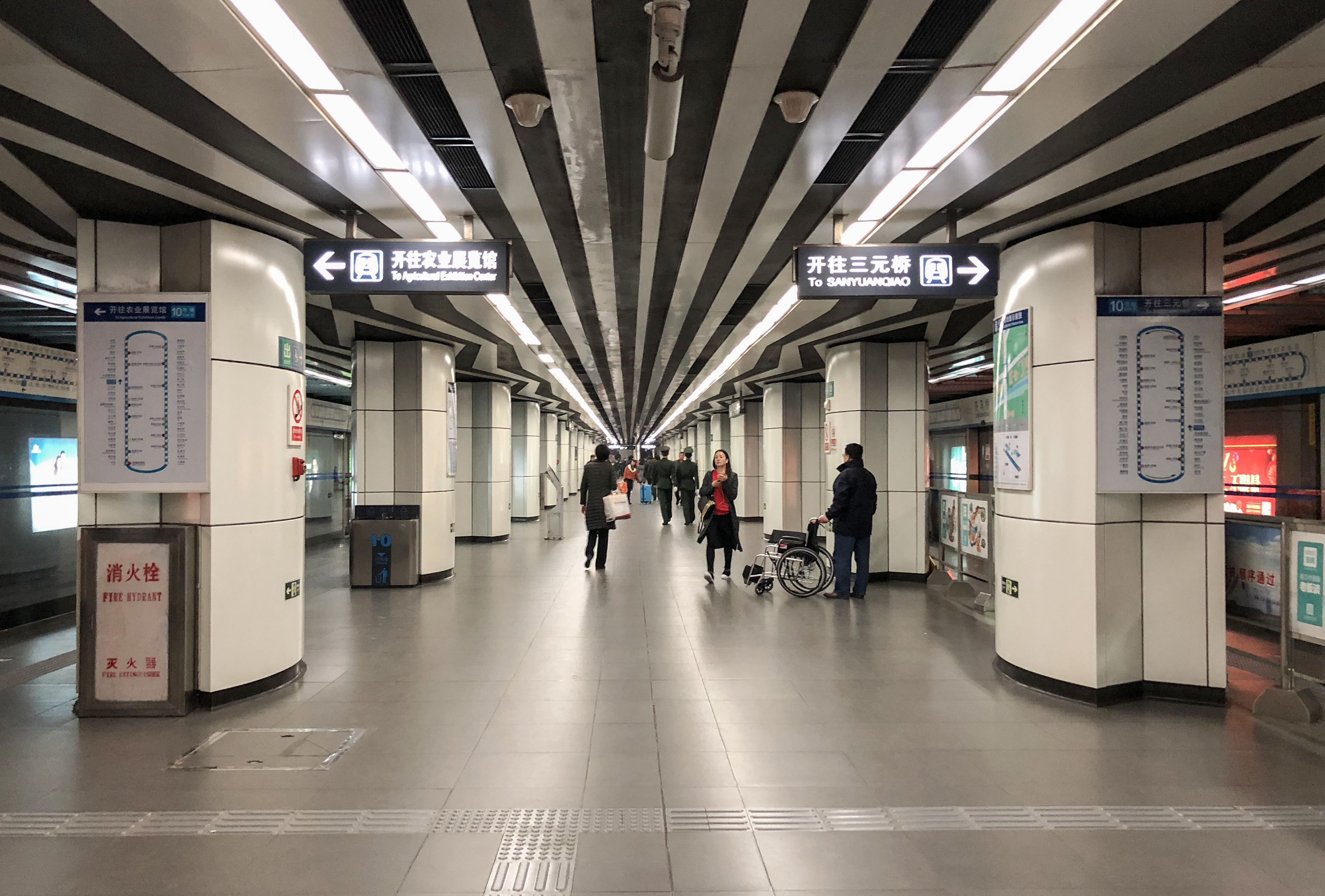 This station was initially planned as Liangmahe Station - Liangma River is right on its south.